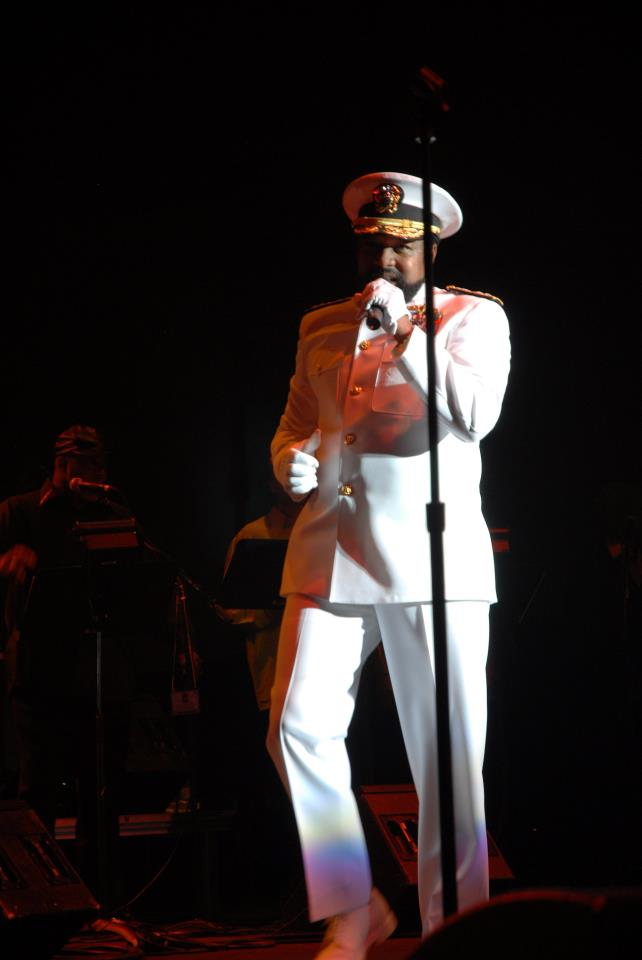 Victor Willis performing in 2008